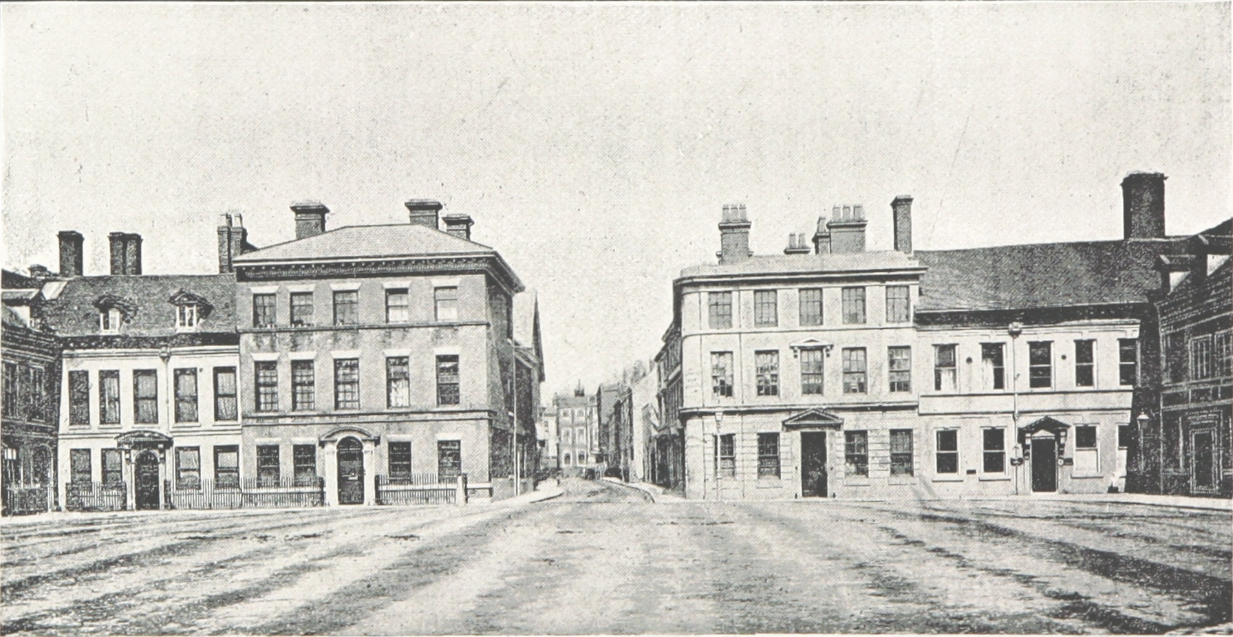 Image extracted from page 122 of Memorials of the Old Square: being some notices of the Priory of St. Thomas in Birmingham ... also of the Square built upon the Priory Close, etc. [With illustrations.] L.P', by HILL, Joseph - of Birmingham, and DENT (Robert Kirkup). Original held and digitised by the British Library. Copied from Flickr. Published by Achilles Taylor, Birmingham. Original caption: "The Old Square - North-West View showing Upper Priory". Note: The colours, contrast and appearance of these illustrations are unlikely to be true to life. They are derived from scanned images that have been enhanced for machine interpretation and have been altered from their originals.